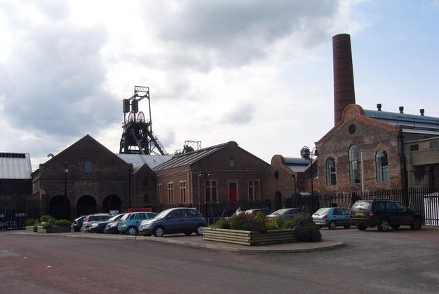 National Mining Museum Scotland, Lady Victoria Colliery, Newtongrange Midlothian